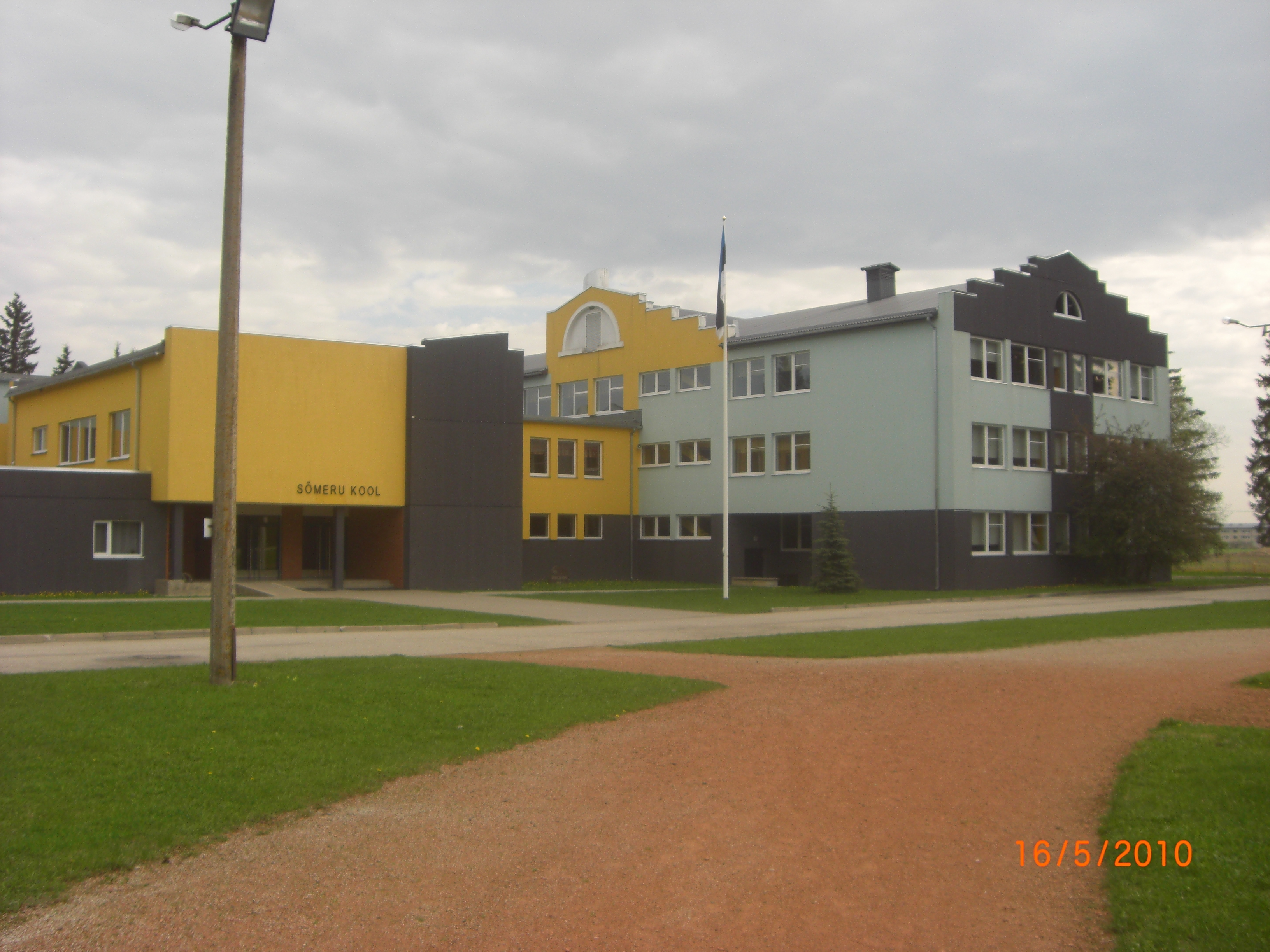 Sõmeru school